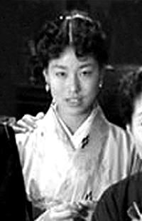 Yoshie Mizutani (1939– )